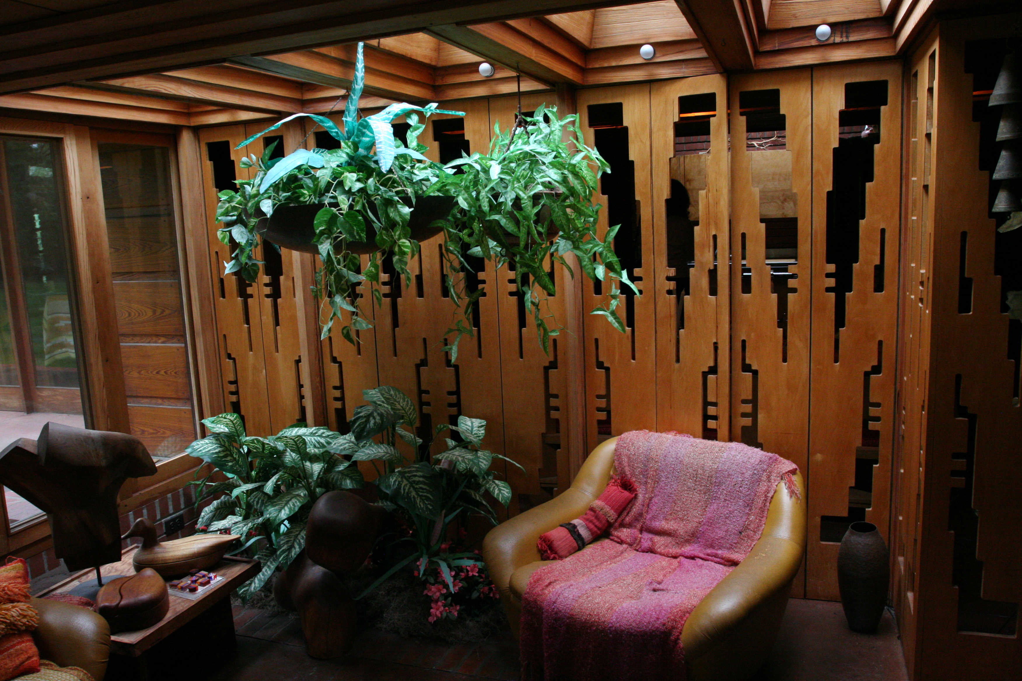 Melvyn Maxwell Smith House living room - FLW, Architect - Bloomfield Hills built in 1946